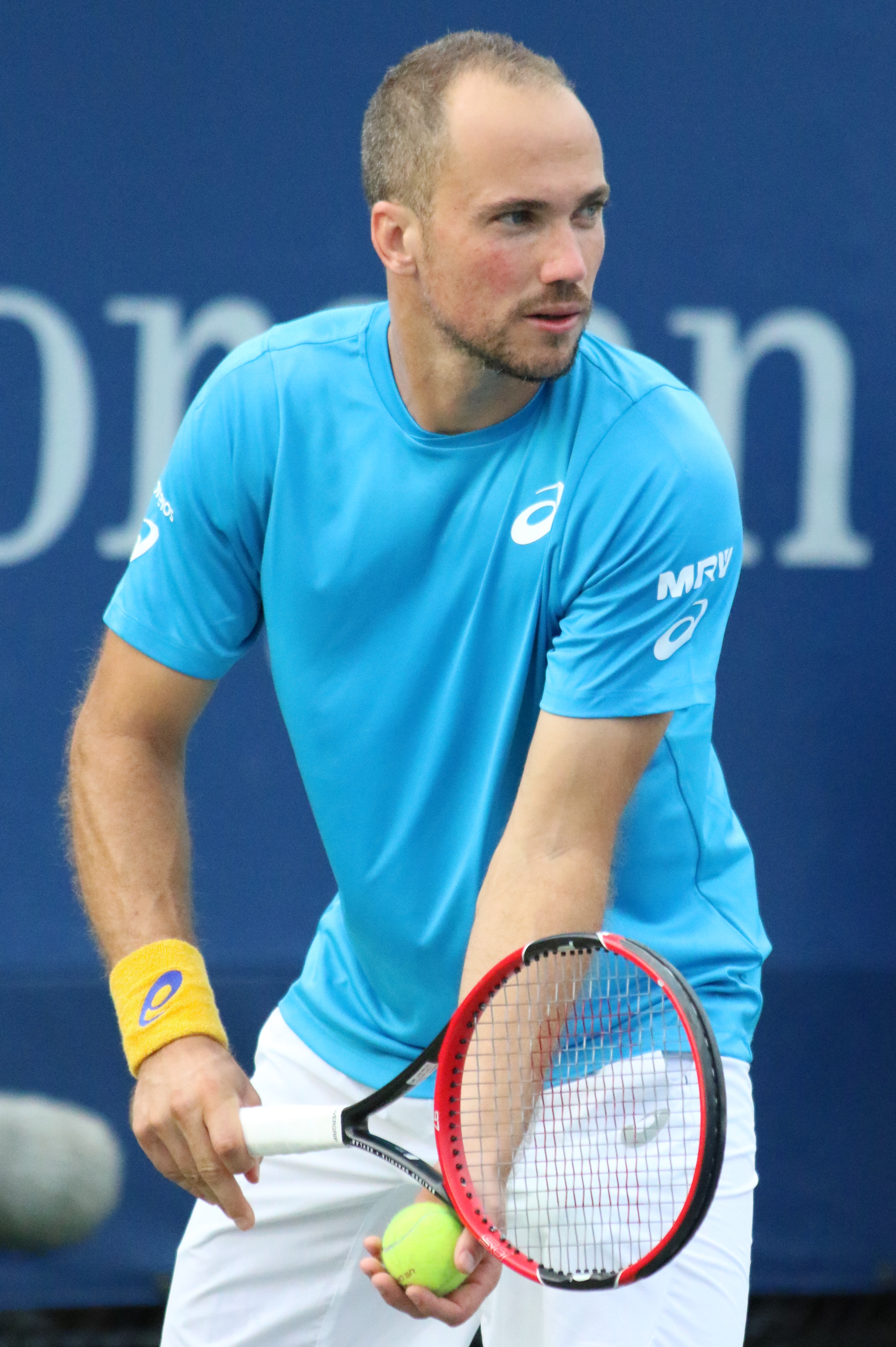 Soares US16 (4)